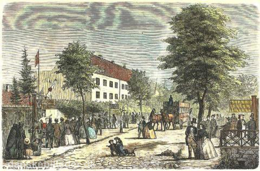 Illustration from Illustreret Tidende showing Allégade in Frederiksberg as seen from the North towards Frederiksberg Runddel